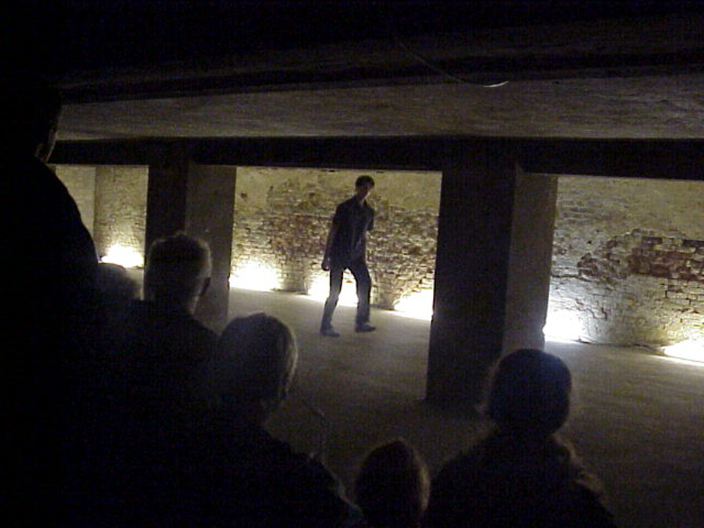 Experimental Dance in a cellar